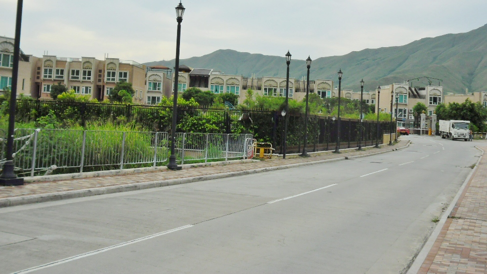 Seasons Palace, Kam tin